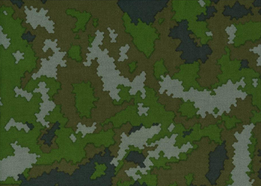 Finnish m/05 cold season camouflage pattern